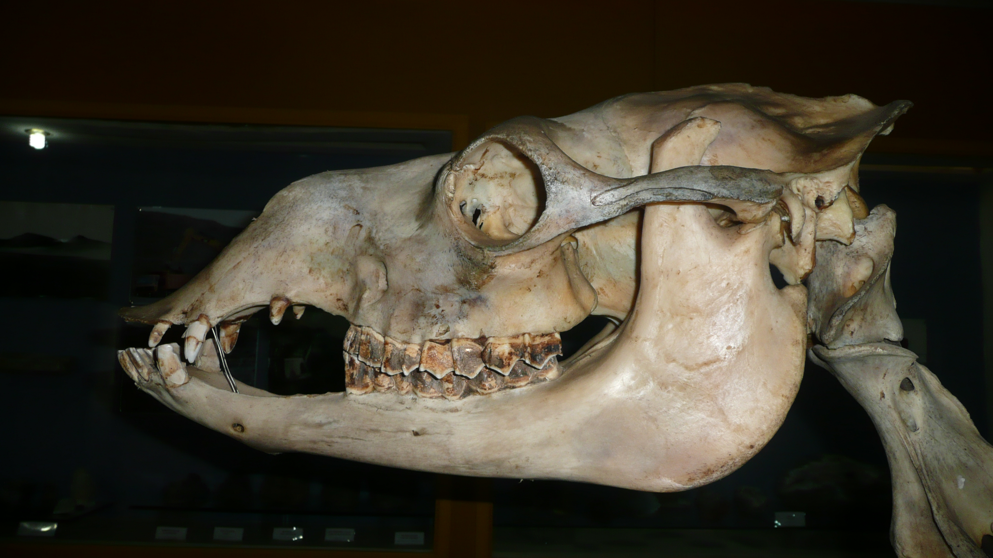 Camel skull in the Museum South Gobi in Dalanzadgad